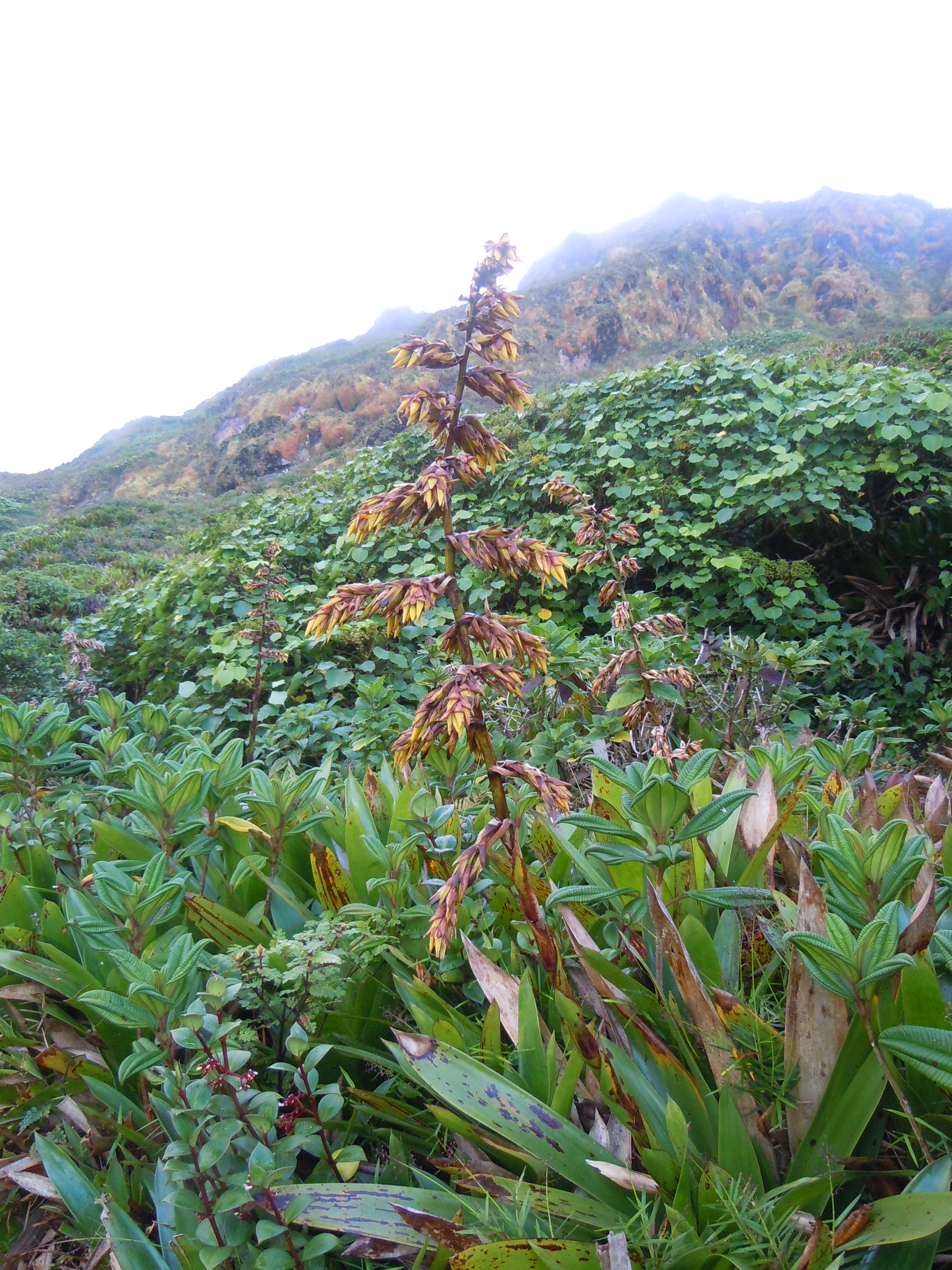 Guzmania plumieri, La Soufrière, Guadeloupe